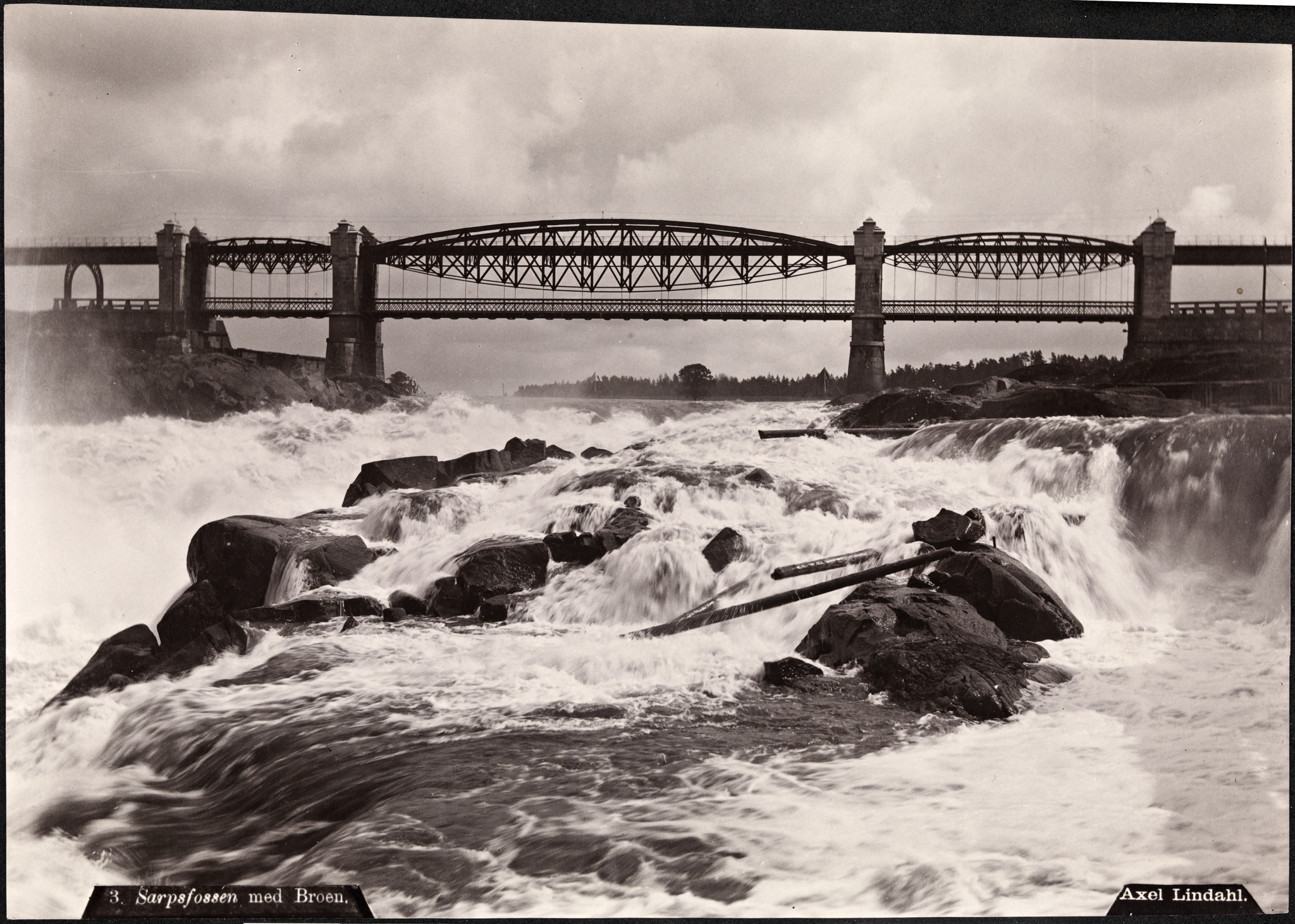 Tittel / Title: 3. Sarpsfossen med Broen Dato / Date: 1880-1890 Fotograf / Photographer: Axel Lindahl (1841-1906) Sted / Place: Østfold, Sarpsborg, Sarpsfossen Eier / Owner Institution: Nasjonalbiblioteket / National Library of Norway Lenke / Link: Bildesignatur / Image Number: bldsa_AL0003